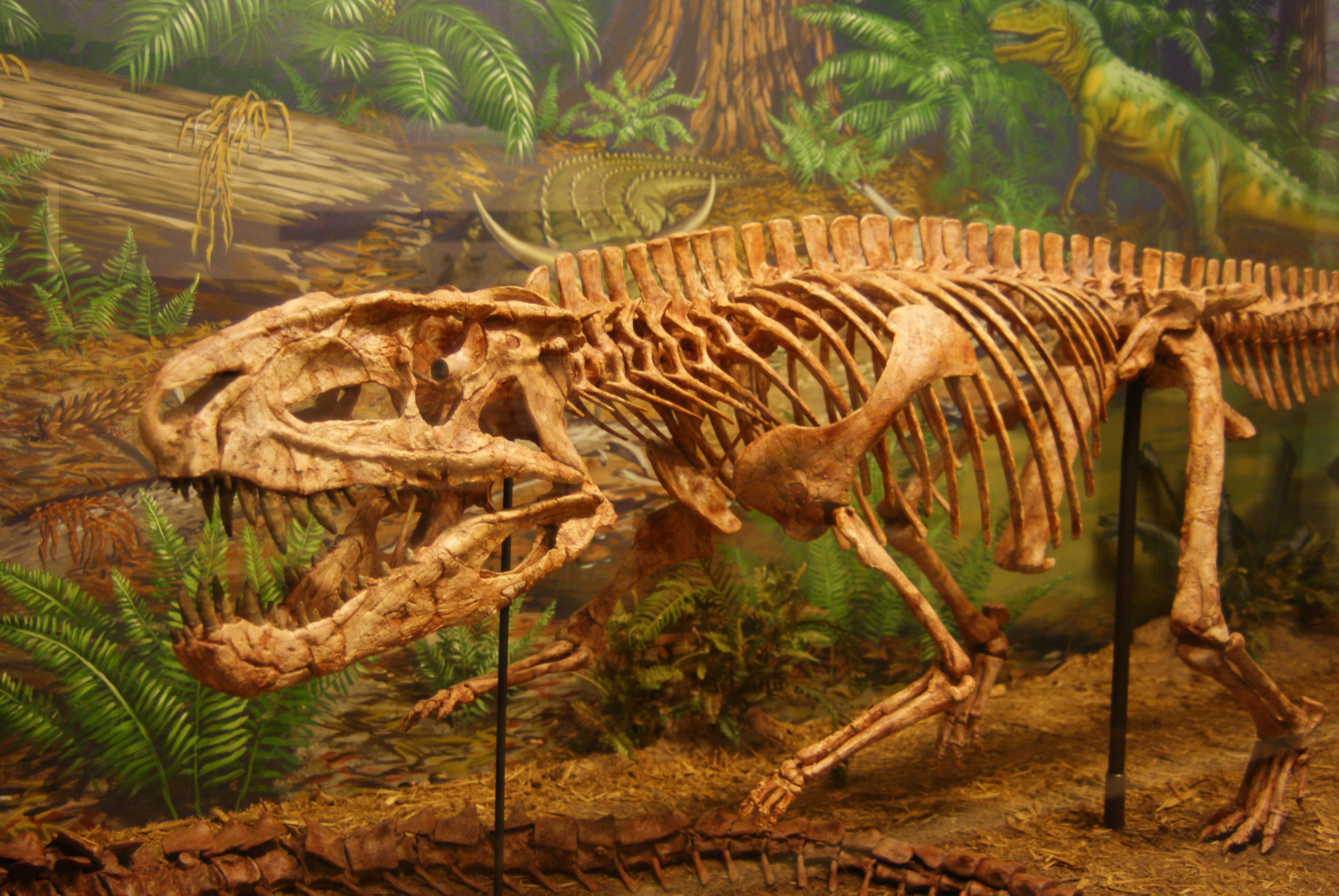 Postosuchus, a basal Triassic archosaur, at the Museum of Texas Tech University